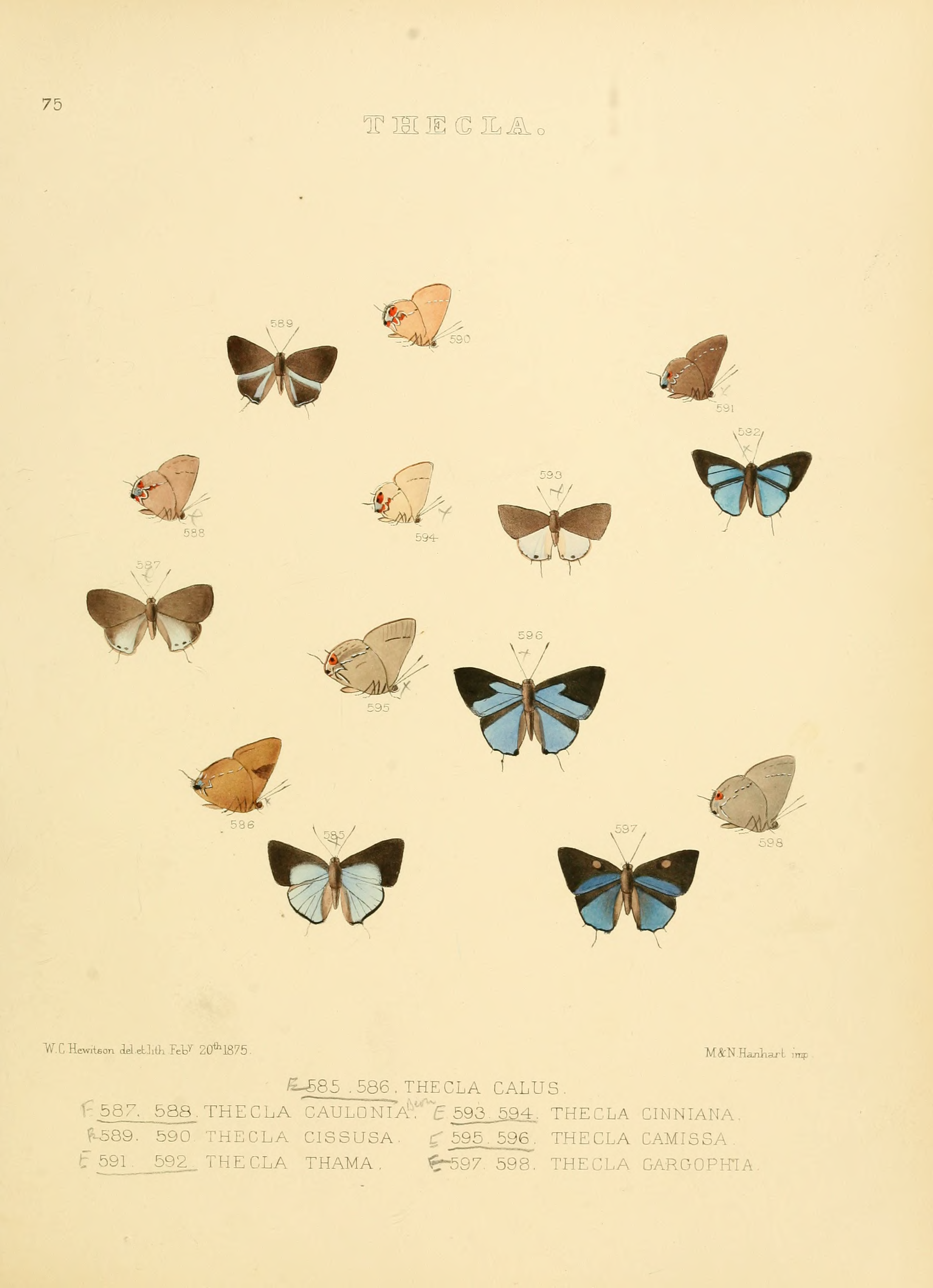 William Chapman Hewitson, [1865] 1862-1878 Illustrations of diurnal Lepidoptera : Lycaenidae. London, John van Voorst Thecla Calus. Plate LXXV. male figs. 585, 586. accepted name Calycopis calus (Godart, [1824]) In the Collection of W. C. Hewitson, from the Amazon. Thecla Caulonia, Hewitson. Plate LXXV. female figs. 587, 588.accepted name Calycopis caulonia(Hewitson, 1877) In the Collection of W. C. Hewitson, from Rio Janeiro. Thecla Camissa, Hewitson. Plate LXXV. male figs. 595, 596. now in Camissecla In the Collection of W. C. Hewitson, from Ecuador (Sayayaco, Buckley) and Nicaragua (Chontales, Belt). Thecla Gargopbia, Hewitson. Plate LXXV. male figs. 597, 598.accepted name Gargina gargophia(Hewitson, 1877) In the Collection of W. C. Hewitson, from Brazil (Espiritu Santo). In the Collection of W. C. Hewitson, from Brazil (Espiritu Santo). Thecla Thama, Hewitson. Plate LXXV. male Figs. 591, 592. accepted name Calycopis thama(Hewitson, 1877) In the Collection of Henley G. Smith, from Santa Martha. Thecla Cinniana, Hewitson. Plate LXXV. female figs. 593, 594. accepted name Calycopis cinniana (Hewitson, 1877) In the Collection of Henley G. Smith, from the Amazon.